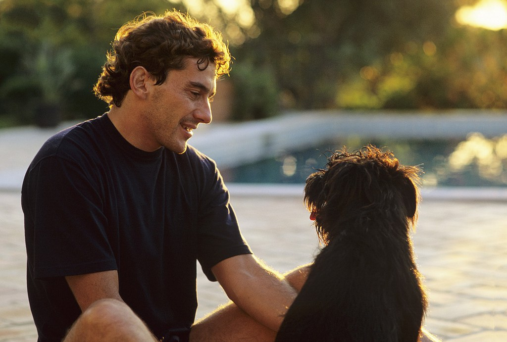 Ayrton Senna enjoying company with a dog